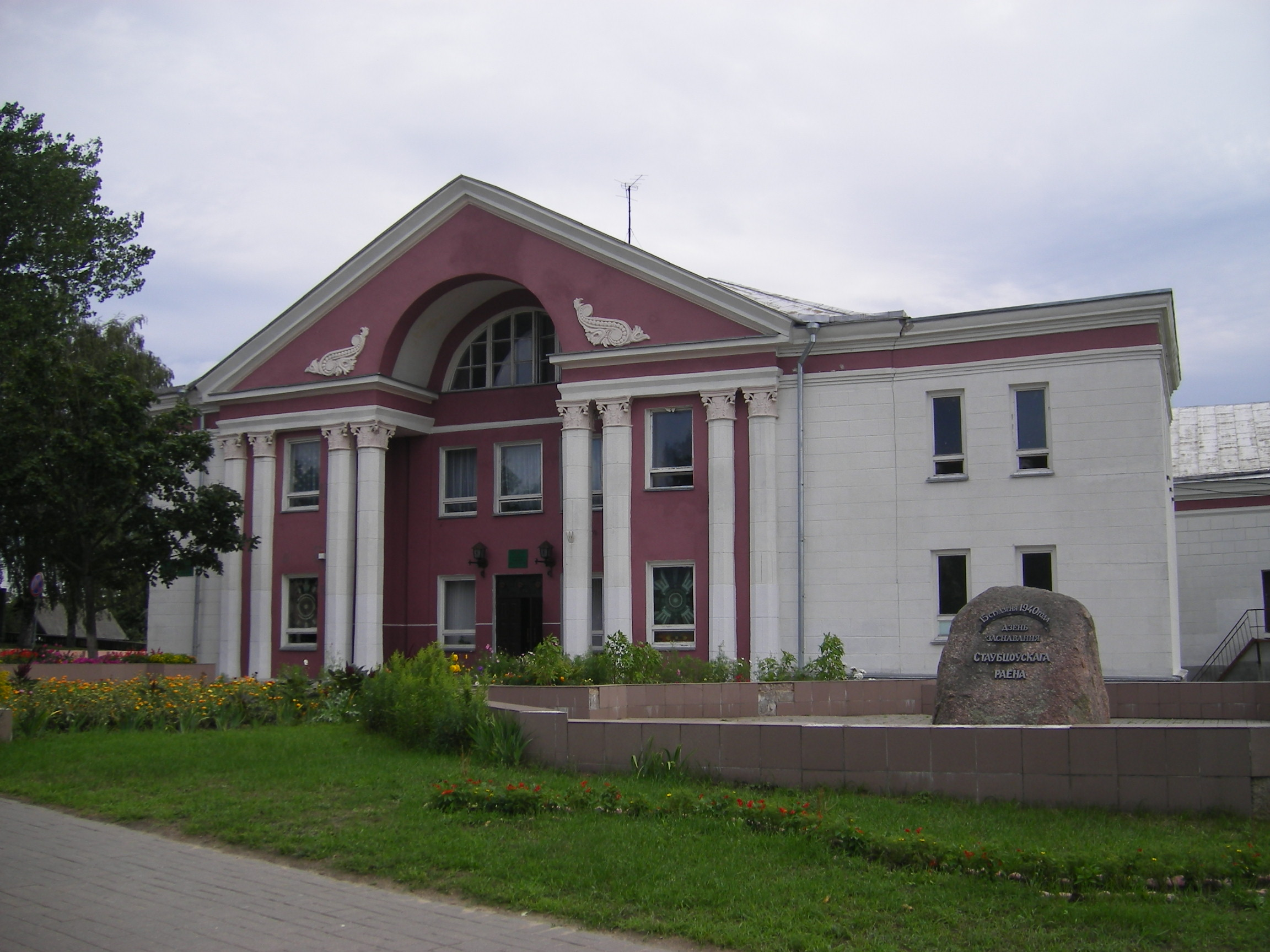 Stowbtsy